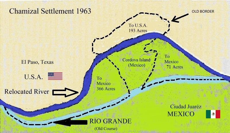 Map of the Chamizal Dispute and Settlement of 1963